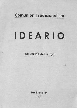 cover of a booklet titled Ideario by Jaime del Burgo, issued in San Sebastian (Spain) in April 1937